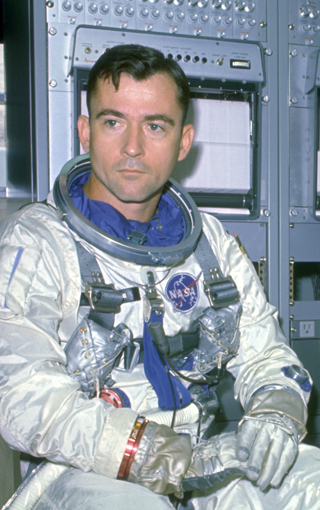 Astronauts John W. Young (left) takes part in training exercises as the back-up Crew for the Gemini 6 mission which will feature the first "docking" of two spacecraft in orbit.